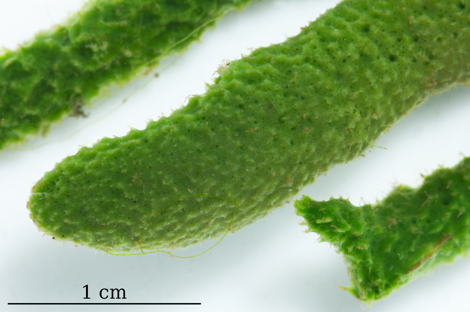 Close-up of freshwater sponges (Spongillidae; possibly/probably Spongilla lacustris). The green color is caused by embedded single-celled algae.